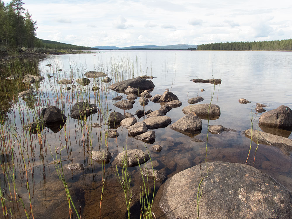 Lake Eggelats (Ieggelatj) close to the settlement Snierra (Strand).